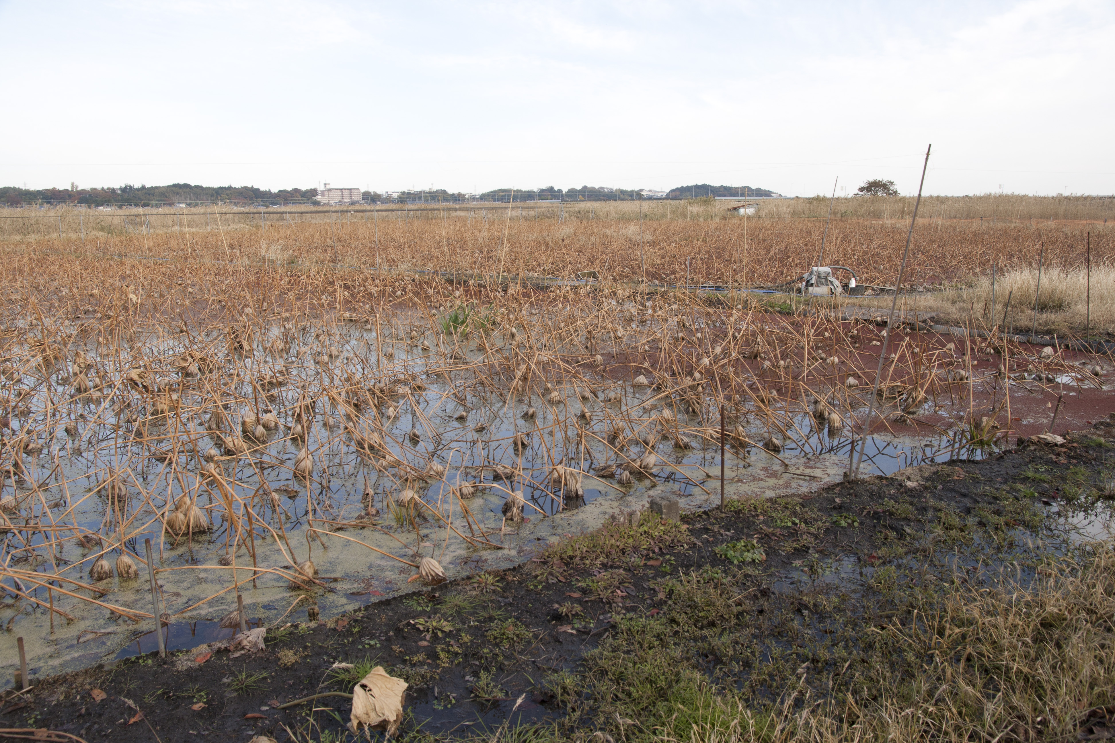 Lotus field in Tsuchiura City, Ibaraki Pref., Japan